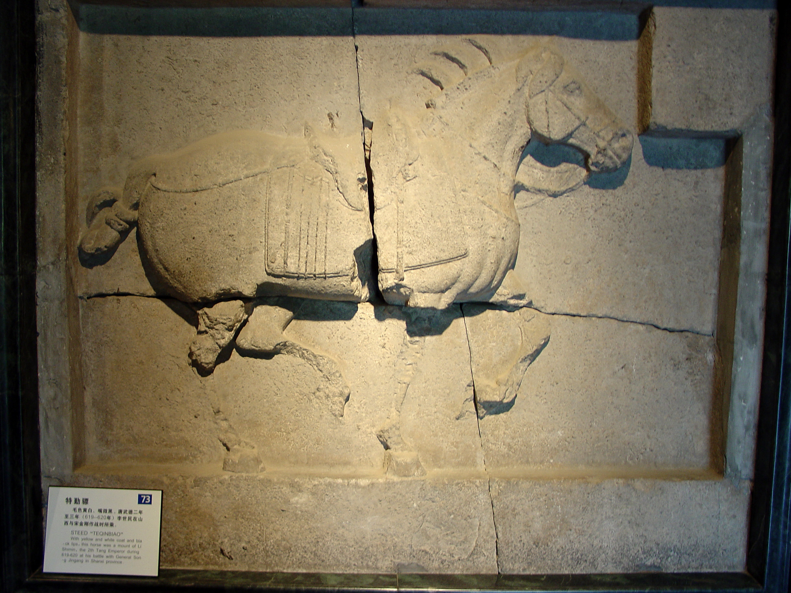 The Steed Teqinbiao. Tang Dynasty. Beilin Museum ("Forest of Steles"), Xi'an Emperor Taizong (Li Shimin) loved his war-horses, and commissioned relief carvings of his six favorites to decorate his tomb. Two of the reliefs were removed from China under questionable circumstances, and are now (2006) on display at the University of Pennsylvania Museum.